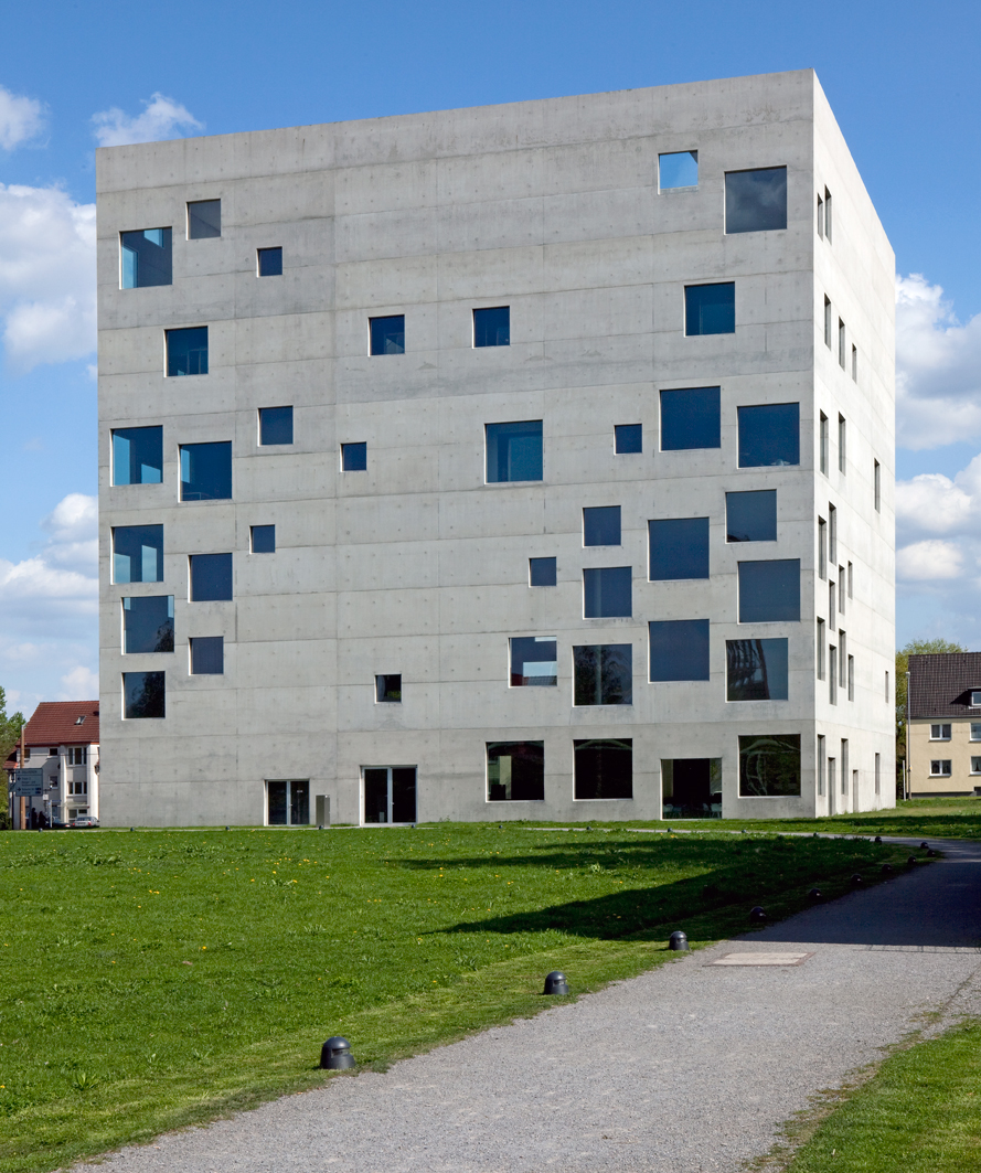 Zeche Zollverein, Essen/Germany, School of Management and Design